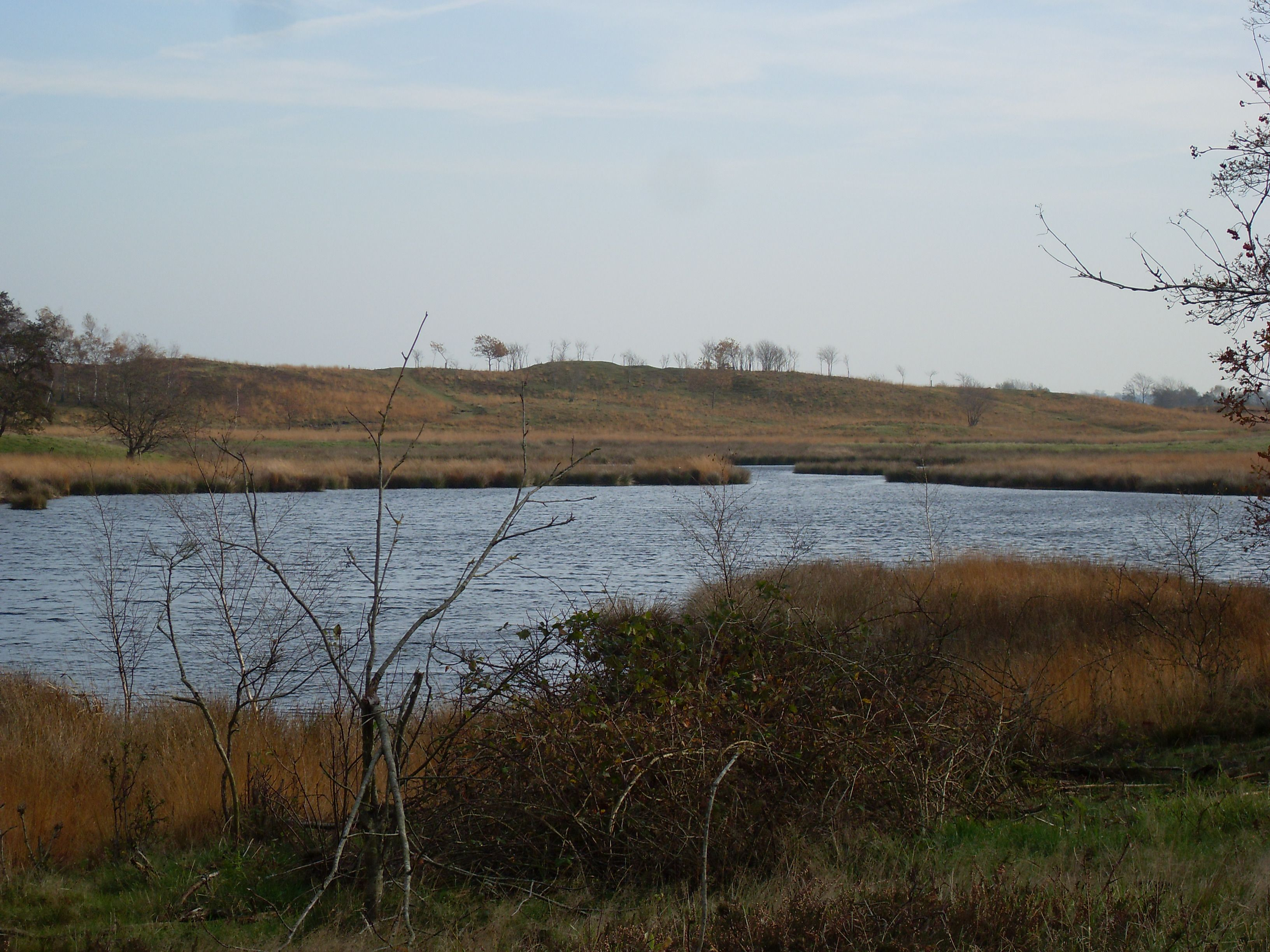 Lake Treßsee and Nature Reserve Düne am Treßsee, dune away from shore